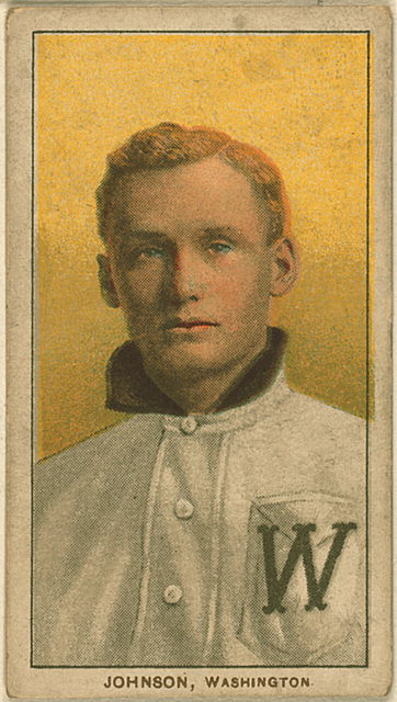 Walter Johnson on a 1909-1911 American Tobacco Company baseball card (White Borders (T206))